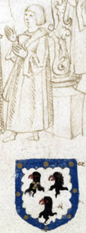 John Sharpe (d.1518/19), of Coggeshall in Essex, a courtier (gentleman usher) to King Henry VII (485-1509), drawn above his arms at a scene depicting the death-bed of King Henry VII at Richmond Palace, 1509. British Library Additional MS 45131, folio 54.